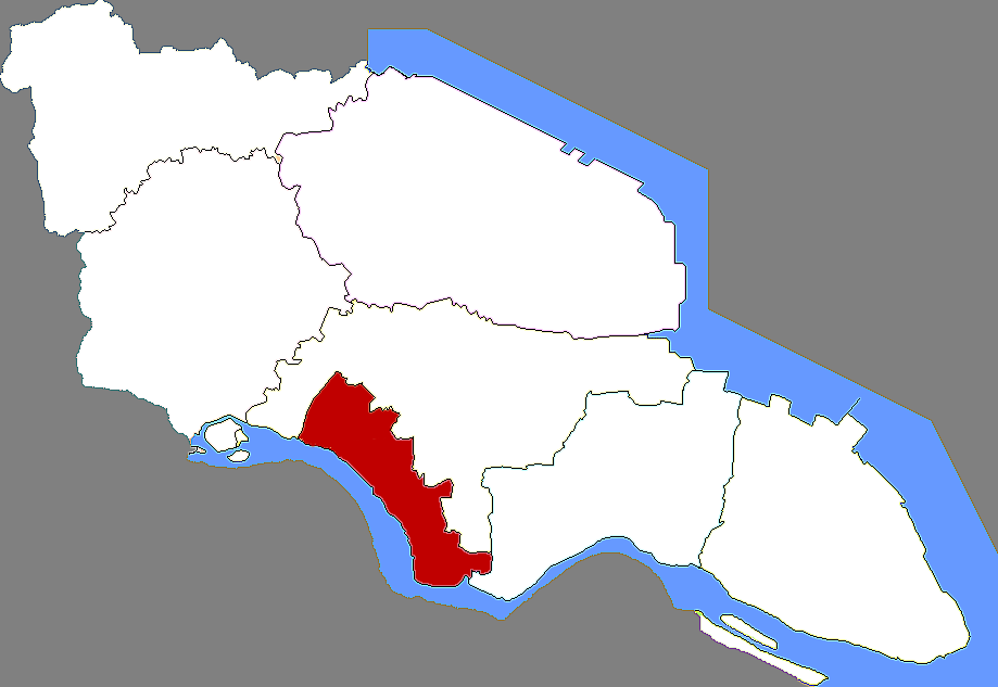 Location of Chongchuan district in Nantong city, China